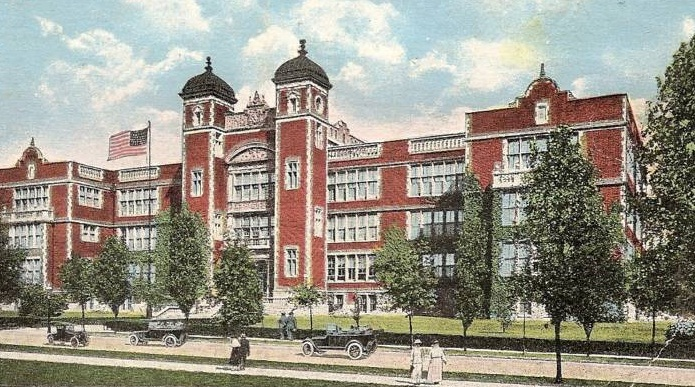 Postcard view of Yeatman High School (later Central High School from 1927 to 2004), mailed in 1918